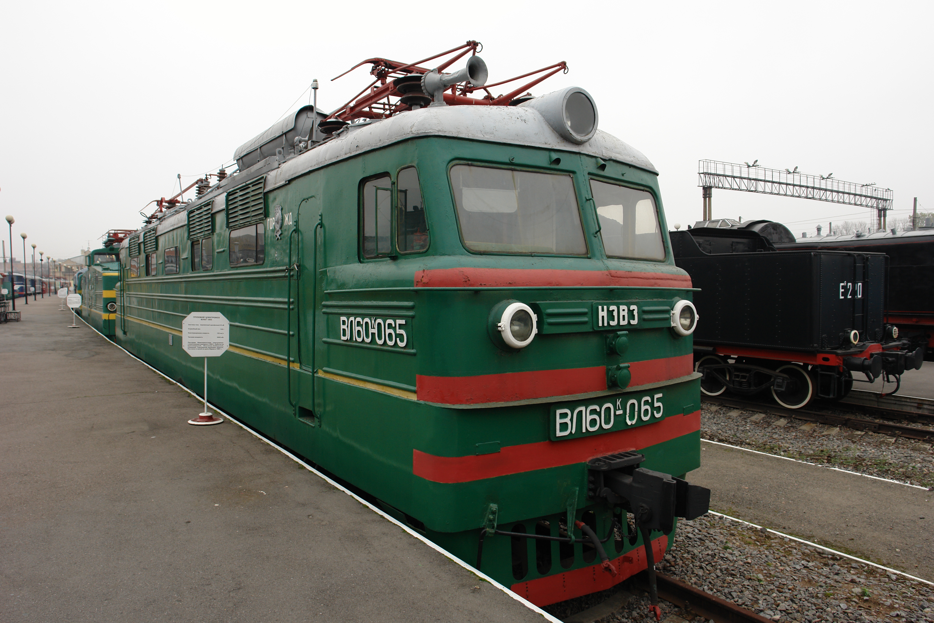 electric freight locomotive VL60K-065